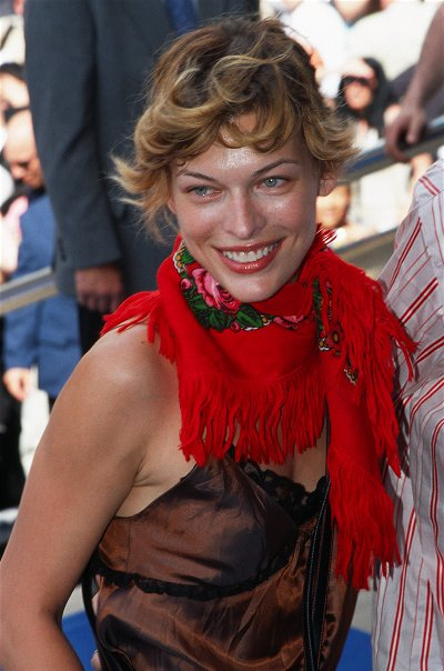 Milla Jovovich at Cannes (2002)